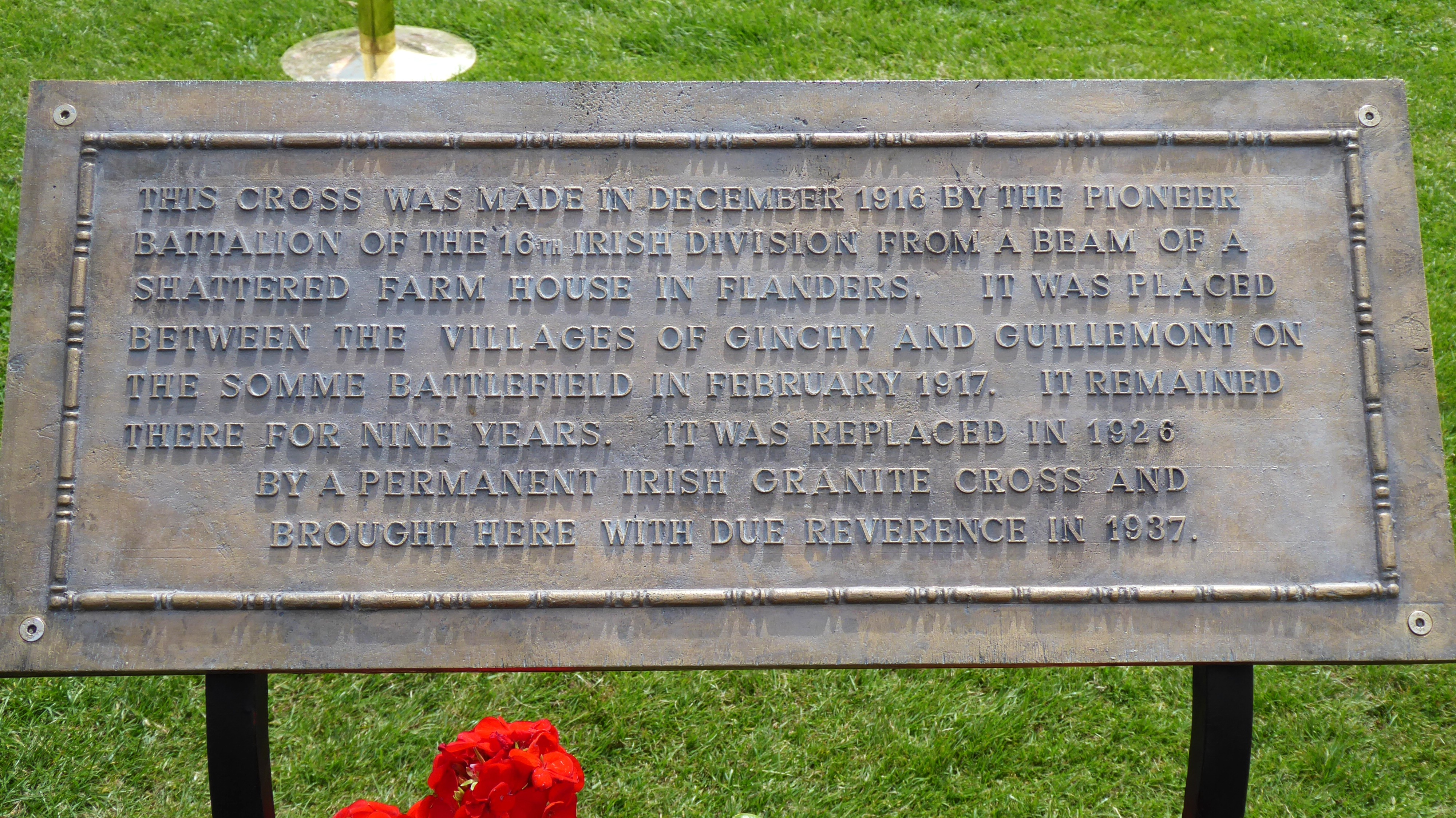 Irish 1916 Somme Cross Memorial Plaque erected together with the original Ginchy Cross in the Irish National War Memorial Gardens for the July 2019 National Commemoration of the Battle of the Somme.